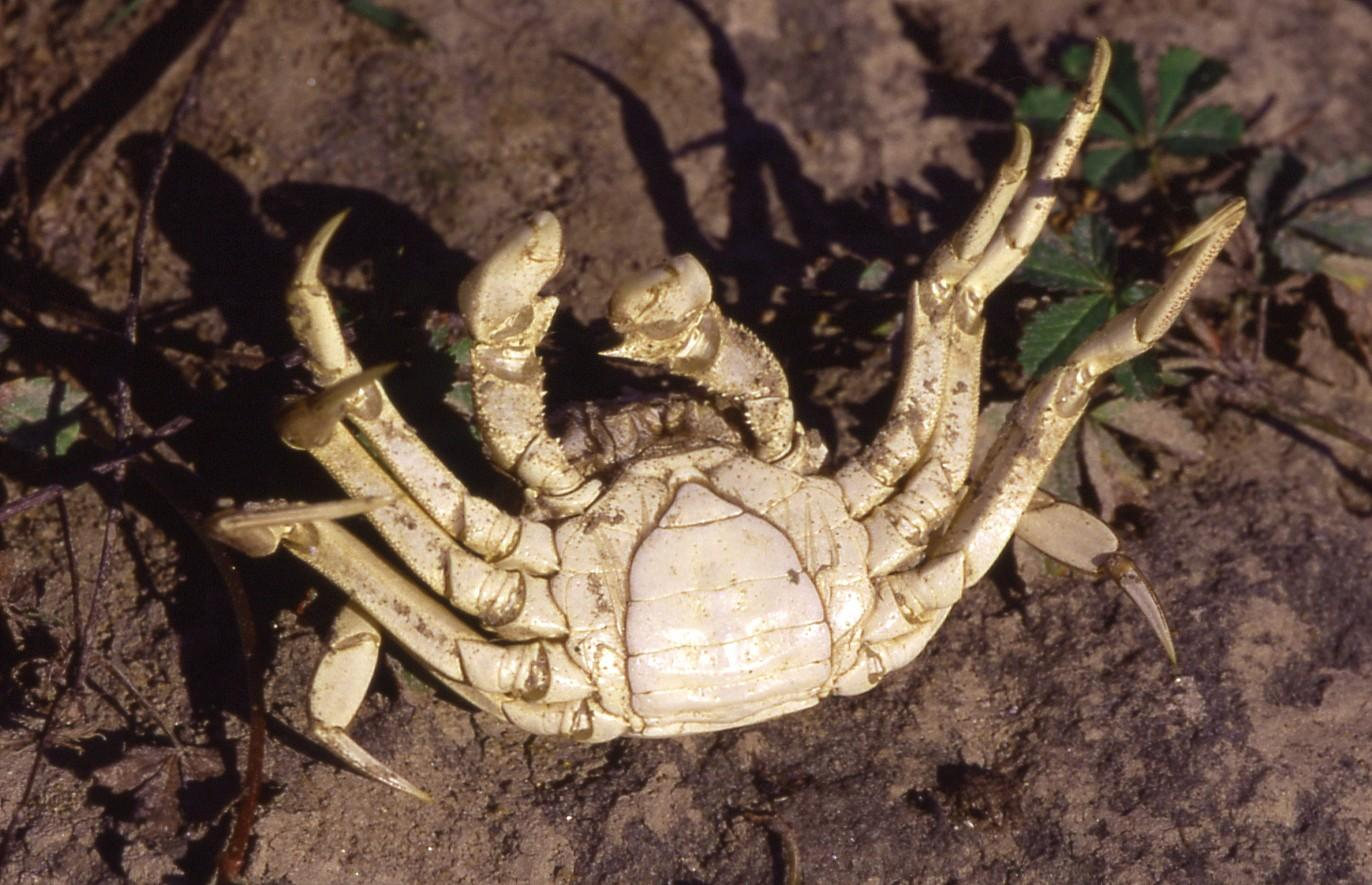 The Chinese mitten crab, Eriocheir sinensis. Empty body shell (belly side) of a younger female specimen with wide pleon and small claws.